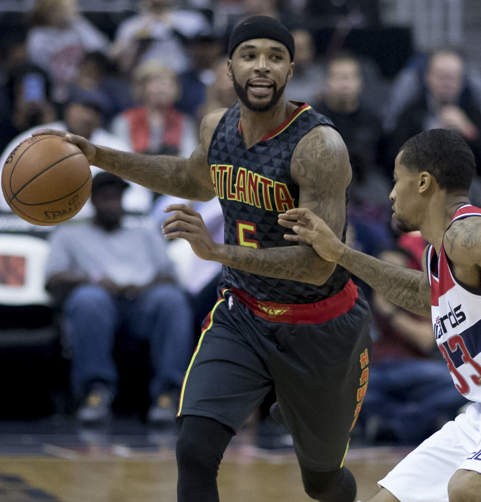 Hawks at Wizards 11/4/16